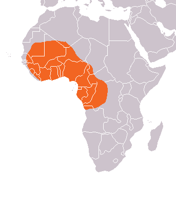 Distribution of Trichechus senegalensis